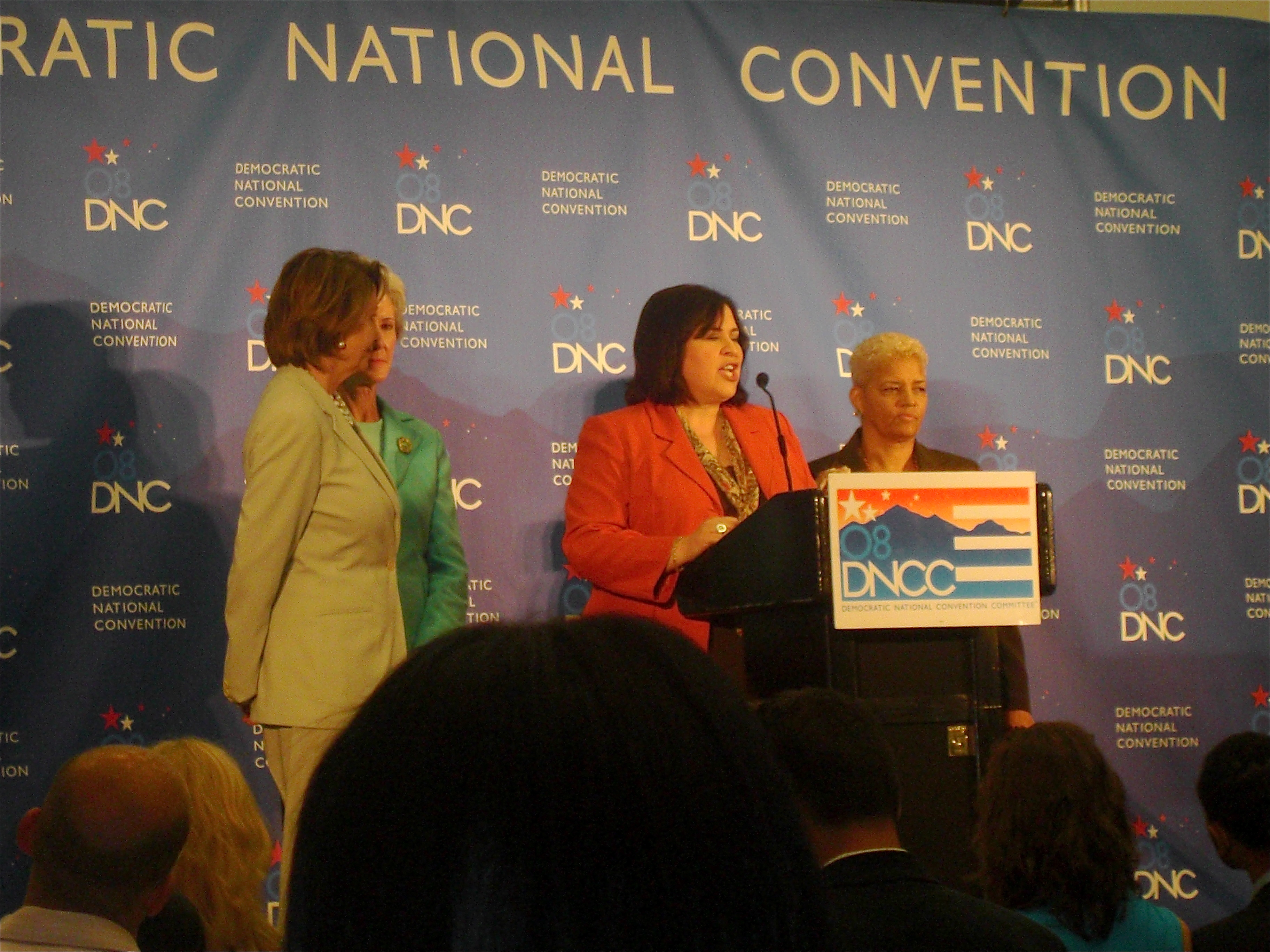 Leticia R. Van de Putte speaks during a press conference at the Colorado Convention Center the day before the start of the 2008 Democratic National Convention in Denver, Colorado. From left, Nancy Pelosi, Kathleen Sebelius, and Shirley Franklin look on.